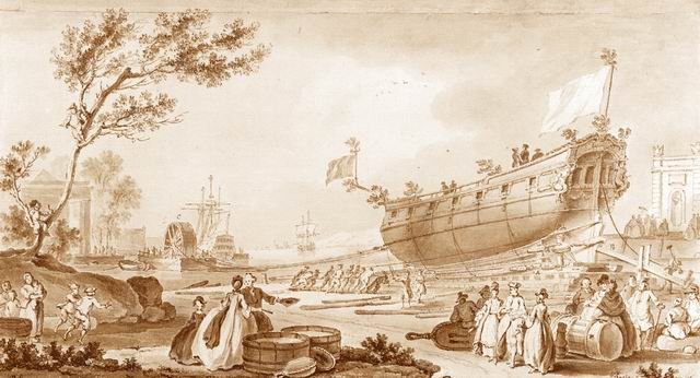 Launch of the sloop Aurora in 1767.